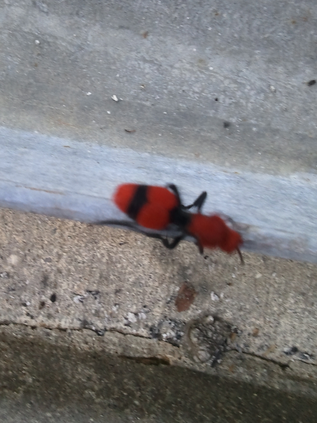 female red velvet wasp